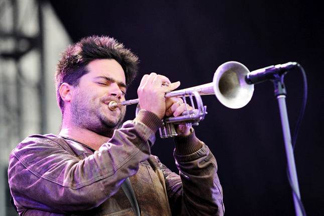 Harry James Angus, The Cat Empire, trumpeter and vocalist, at the West Coast Blues N Roots Festival, 17 April 2001